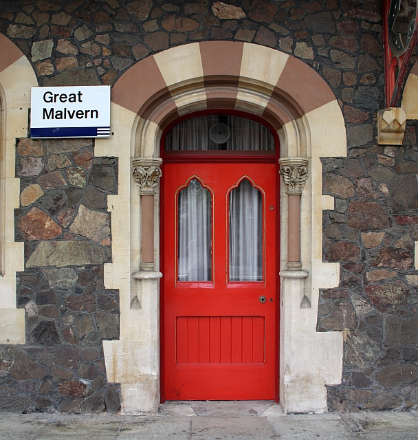 Doorway, Malvern station Just one of the lovely attractions of this station.